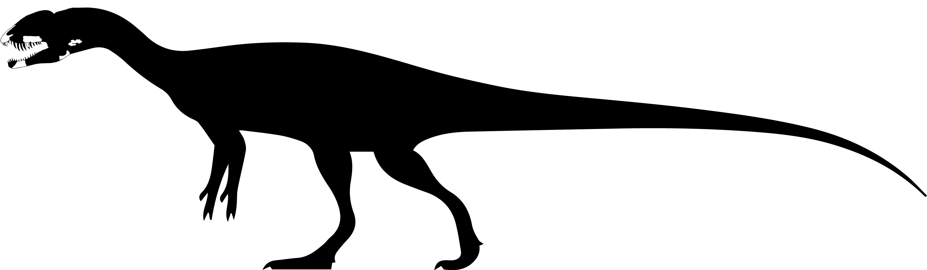 Dracovenator skeletal reconstruction